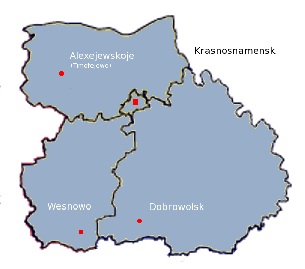 The administrational division of the Krasnoznamensky District in German transcription